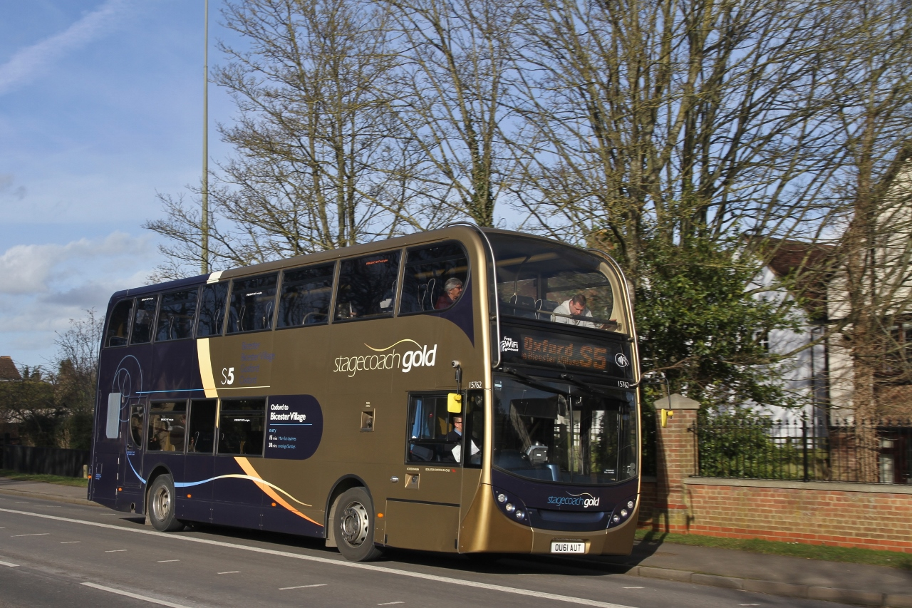 A Stagecoach in Oxfordshire bus on Banbury Road, Cutteslowe, Oxford. It is a Scania N230UD with Alexander Dennis Enviro400 body, registration mark OU61 AUT, fleet number 15762, branded for route S5.